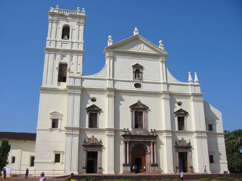 Cathedral of Goa, Velha Goa, India